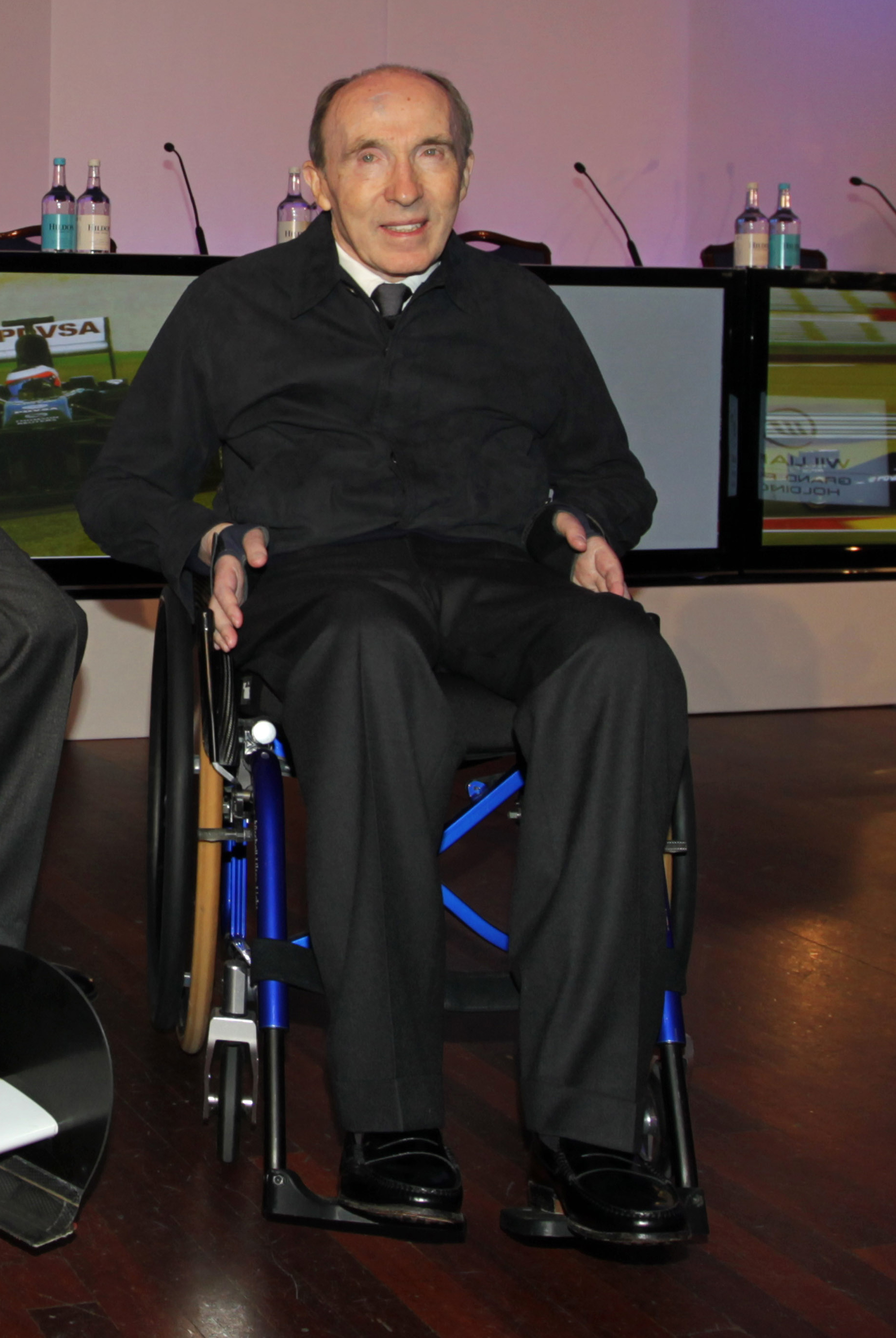 Frank Williams